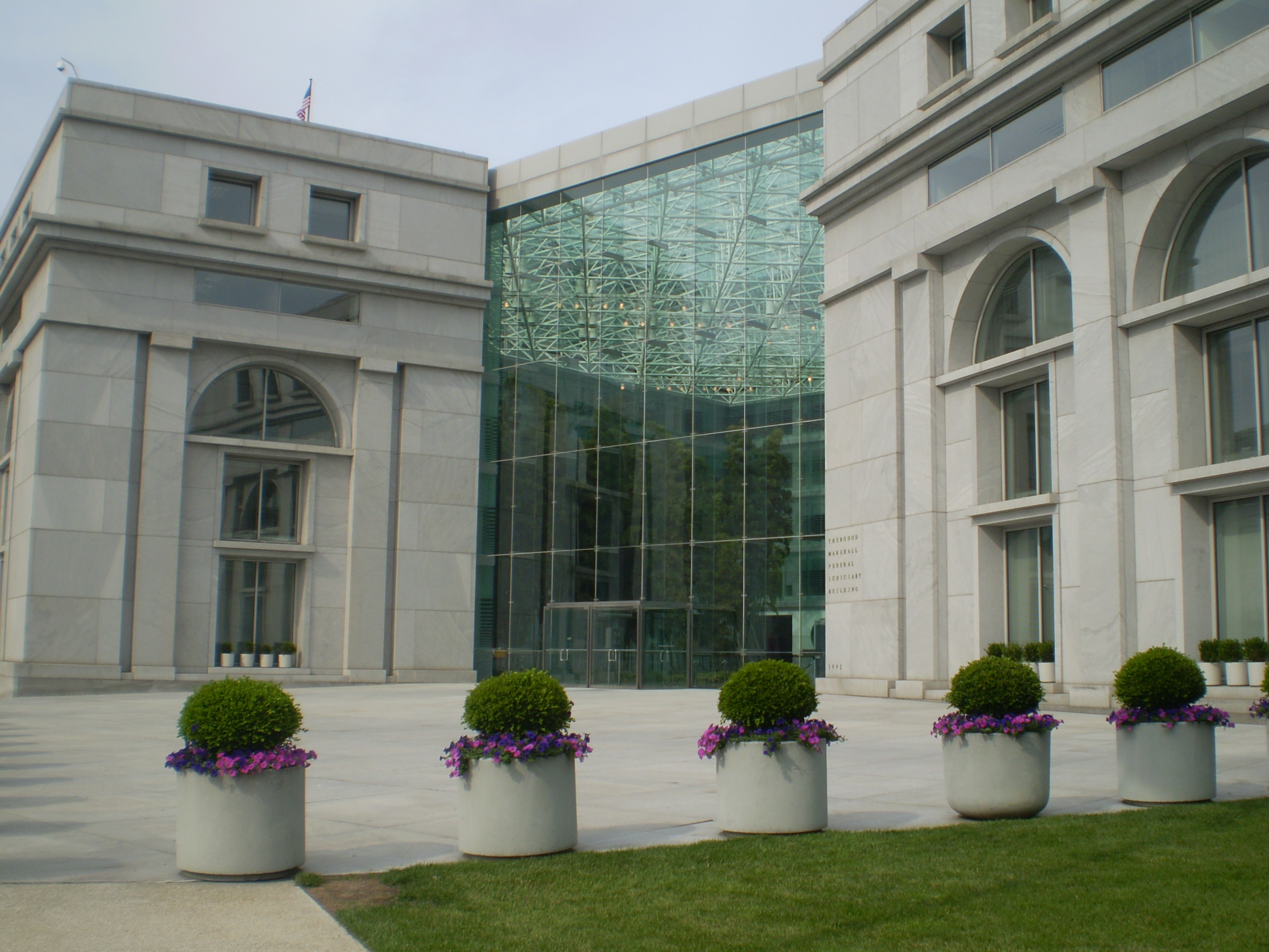 Thurgood Marshall Federal Judiciary Building. Architect Edward Larrabee Barnes.